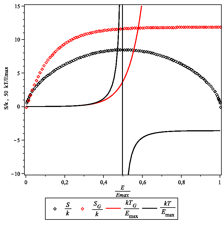 Entropies et températures de Boltzmann et Gibbs